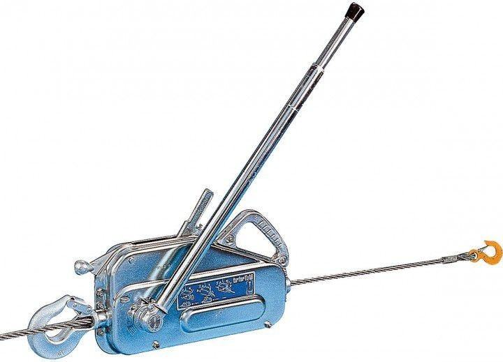 This picture shows a hoist which is the TRACTEL SAS company's property. TRACTEL SAS requests me to upload this picture for the wikipedia article called "Tire fort"